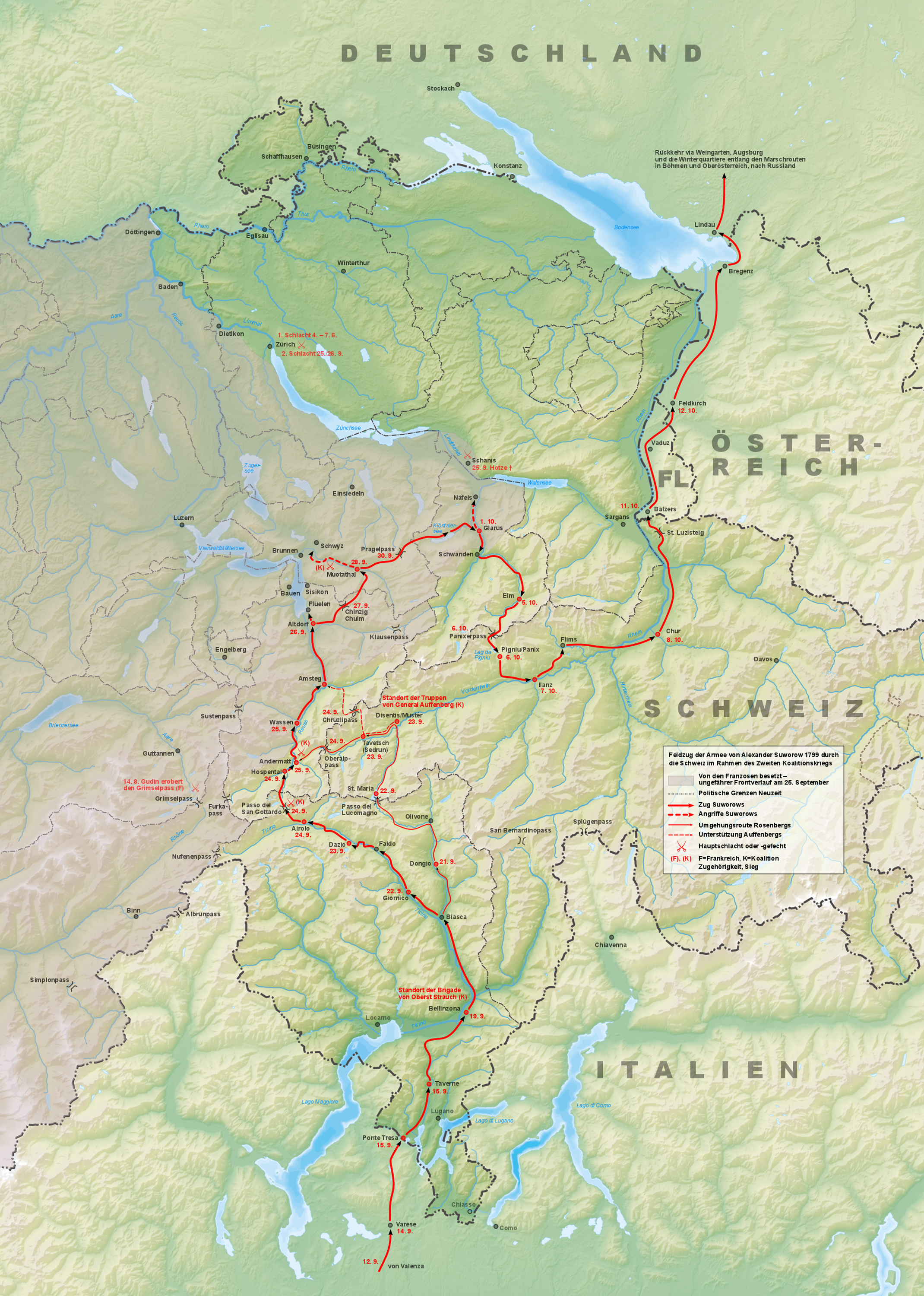 Route of the campaign of the Russian-Austrian army of Alexander Suvorov in 1799 through Switzerland in the war of the Second Coalition. Referred some additional places and dates related with this campaign. Dating according to the Gregorian calendar.